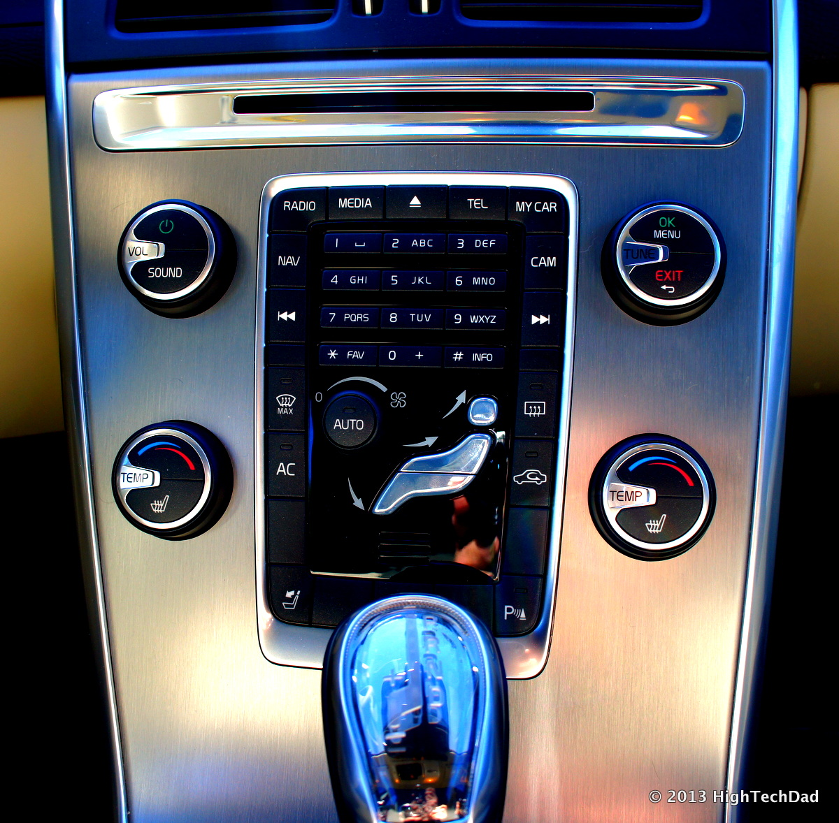 Photos from a 7-day test drive of the 2013 Volvo XC60. More information can be found at